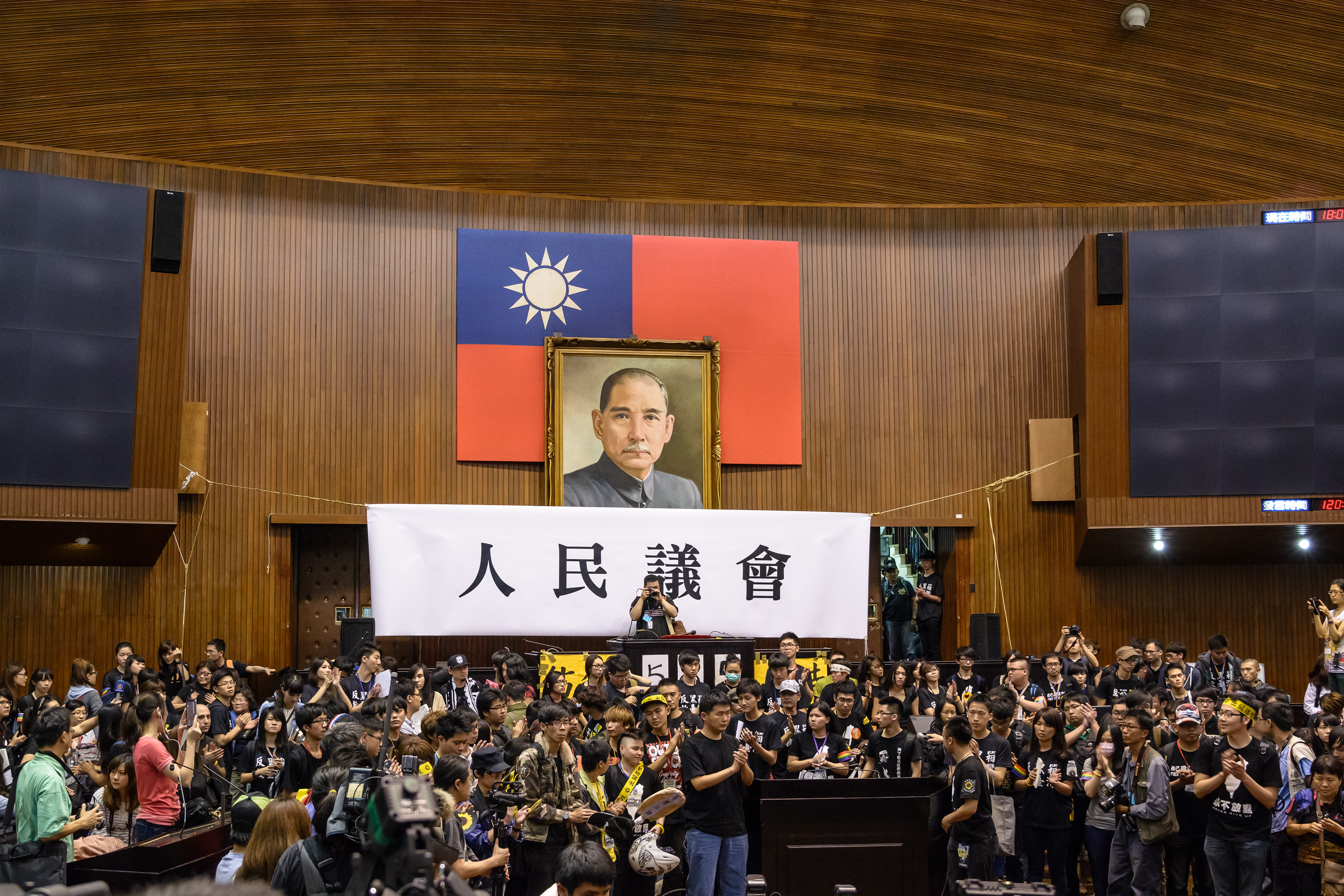 The student leaders inside the occupation said they will leave the Legislative Yuan on Thursday 10 April. This is after a pledge by the parliamentary speaker, Wang Jin-pyng, a member of the ruling Kuomintang (KMT), that a new law would be enacted for monitoring trade deals with China. The CWI in Taiwan is very critical of the decision to call off the occupation and the way it was reached, which wasn’t democratic. The anti-government protests since 18 March represent a historic movement, which mobilised half a million Taiwanese on the streets and threatened to develop into strikes against president Ma Ying-jeou and the trade pact – this was being discussed and to some extent took place in the universities. But much more could have been achieved without this hasty announcement to wind down the protests. The occupation was seen as the hub of the protests, so inevitably, while protests will continue because the government has not retreated, it will be harder to regain the lost momentum. There is a lot of confusion now about what to do next.